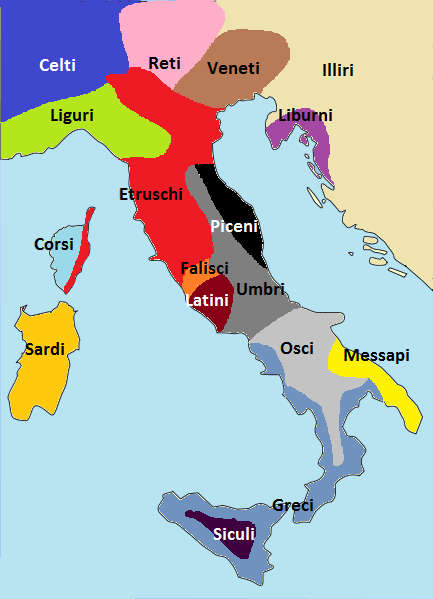 Italy in the iron age